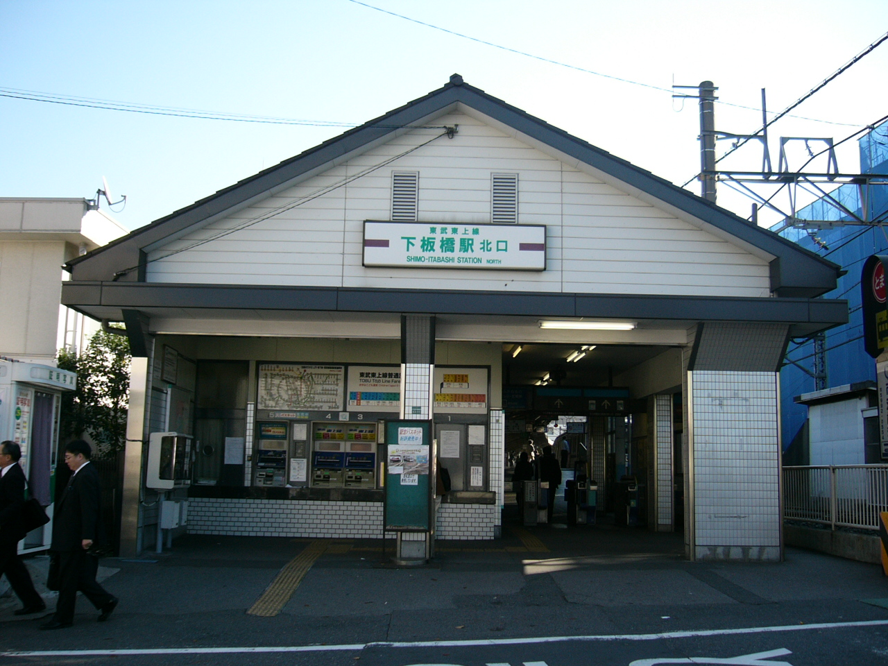 Shimo-itabashi Station (North Exit)